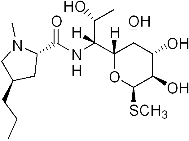 chemical structure of lincomycin